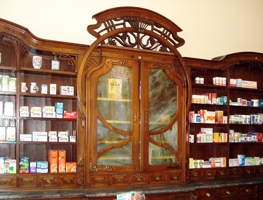 Furniture in the Pharmacy for Golden Snake, Miskolc, Hungary